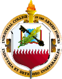 Industrial College of the Armed Forces emblem from [1]